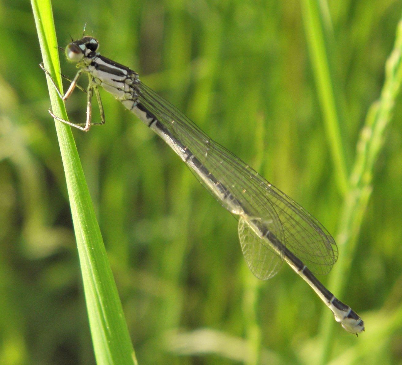 In Sweden we call this one Moon Damselfly. Its completly black on its back and i dont think any other specie from this genus has like that in my area.